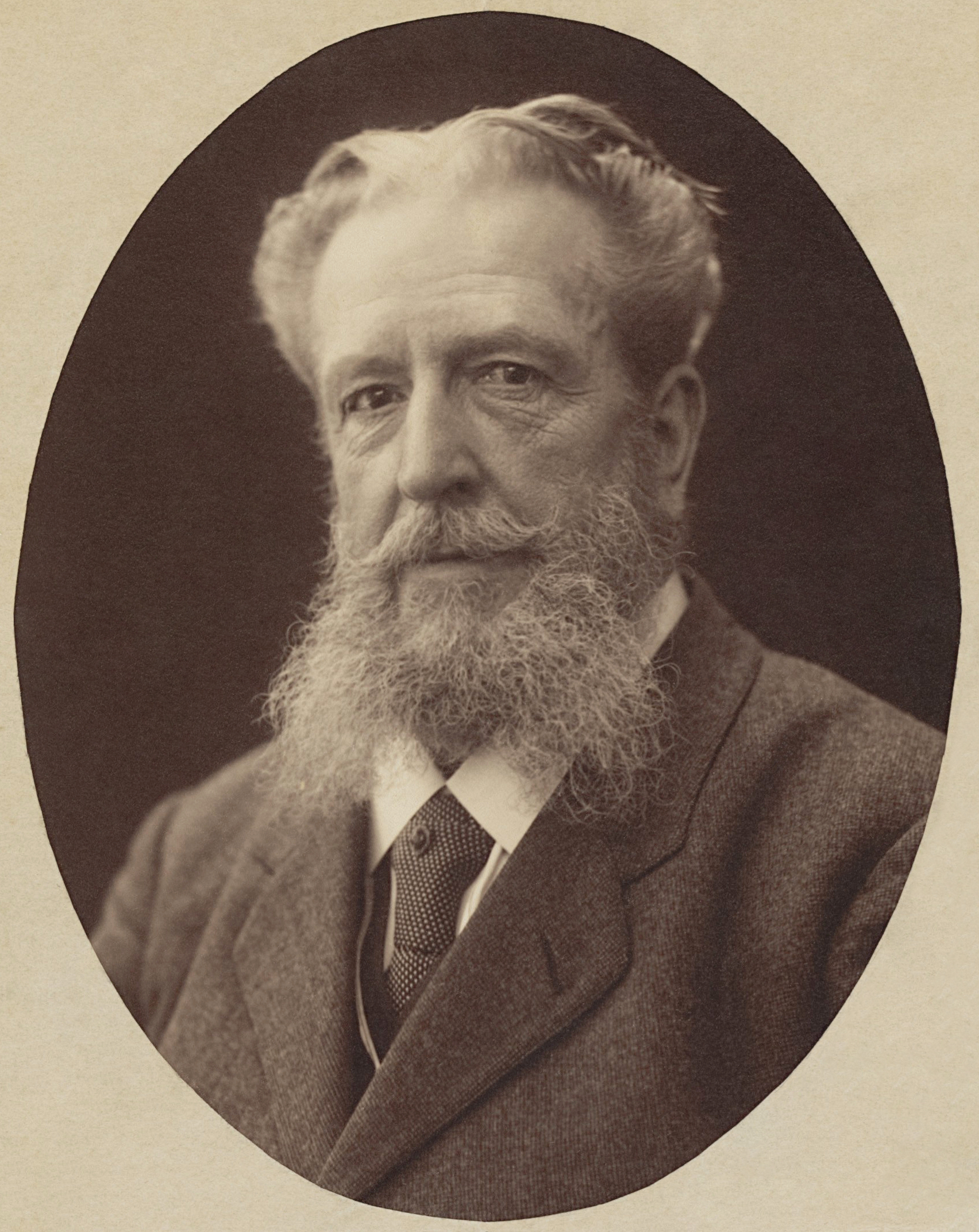 Kunstschilder Jan ten Kate